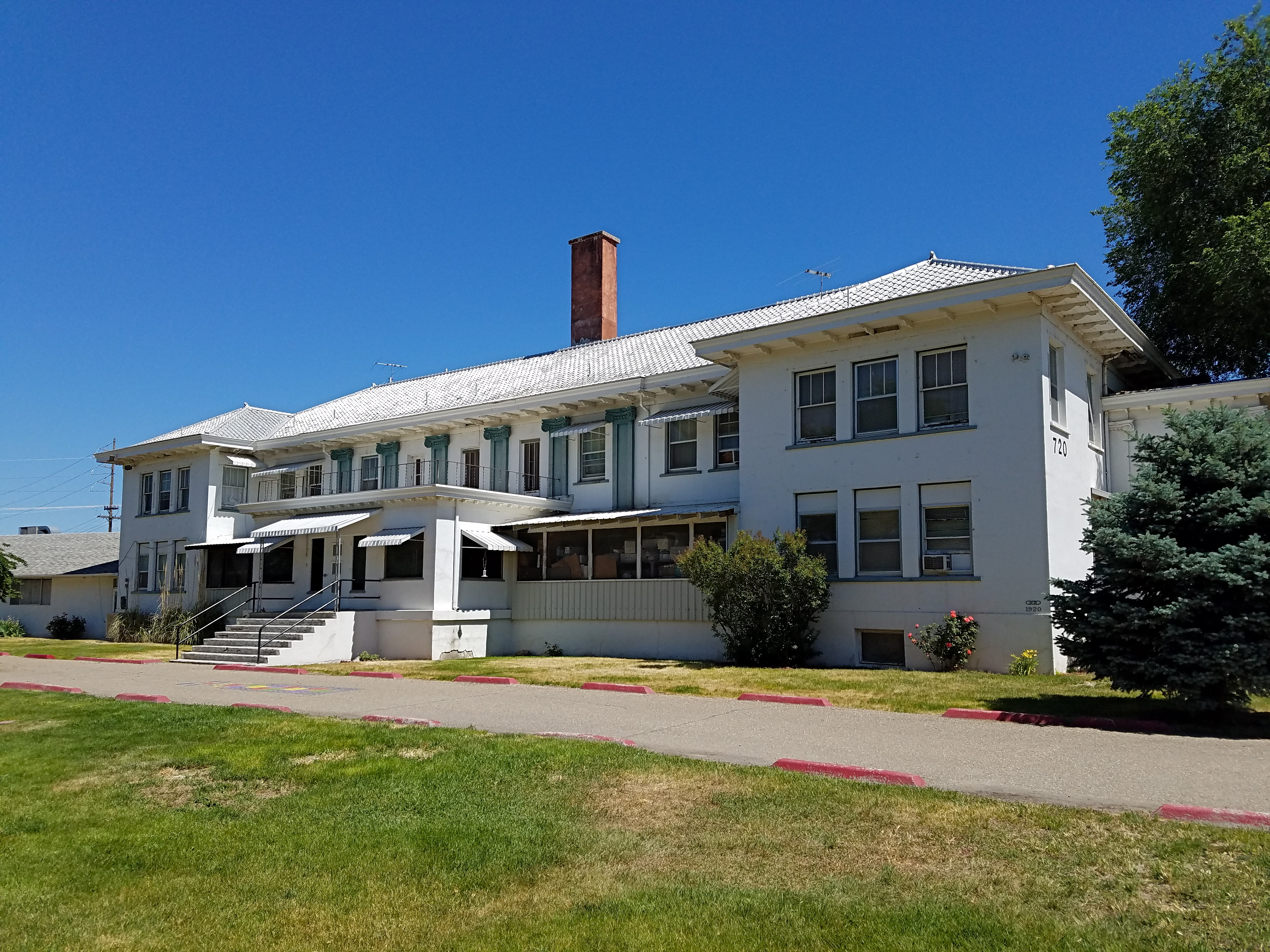 Caldwell Odd Fellows Home, South exposure, designed by Tourtellotte and Hummel and constructed by C.E. Silbaugh in 1920.